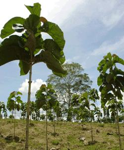 Teak trees on the Loka teak plantation, Loka, Sudan